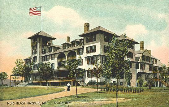 The Rock Inn, Northeast Harbor, Mount Desert Island, Maine